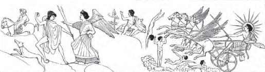 Illustration of central band from the Blacas krater of "Sunrise", British Museum E466. The figures generally combine mythical personages and astronomical objects. From right to left, the figures are Helios (the Sun), four boys representing setting stars, Endymion, Eos (the dawn), Cephalus, a dog, and Selene (the Moon). It has been suggested that here Cephalus is an avatar of Orion, as he seems to take the general shape of the constellation, and that the dog at his foot represents Sirius.